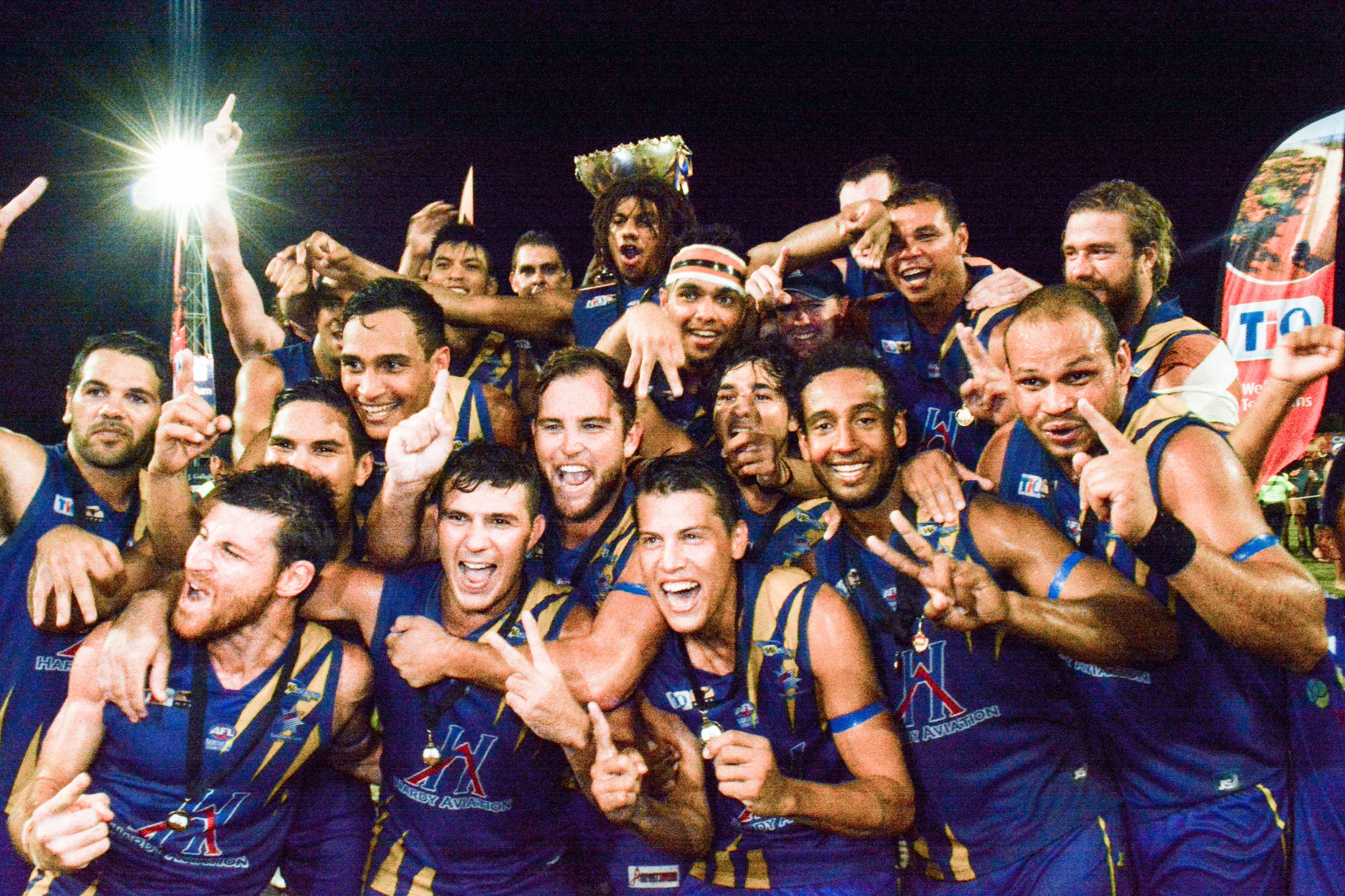 Wanderers premiership team